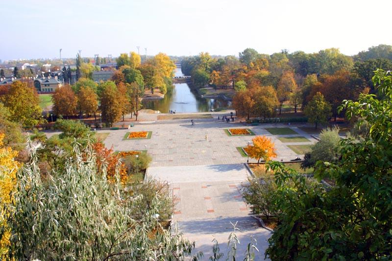 Agrykola Park in Warsaw with the permission of the authers Marek and Ewa Wojciechowscy [1]